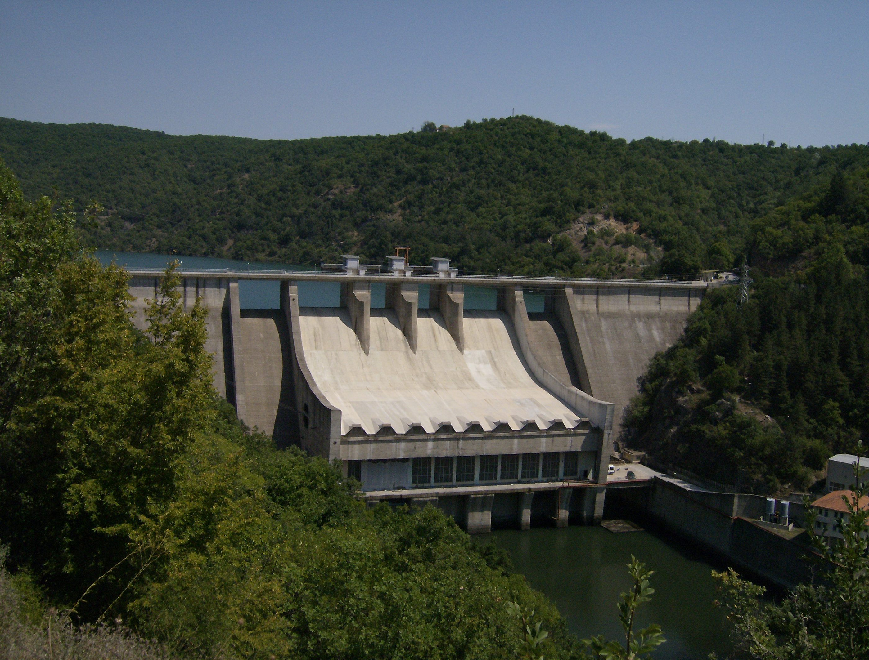 Ivailovgrad Dam